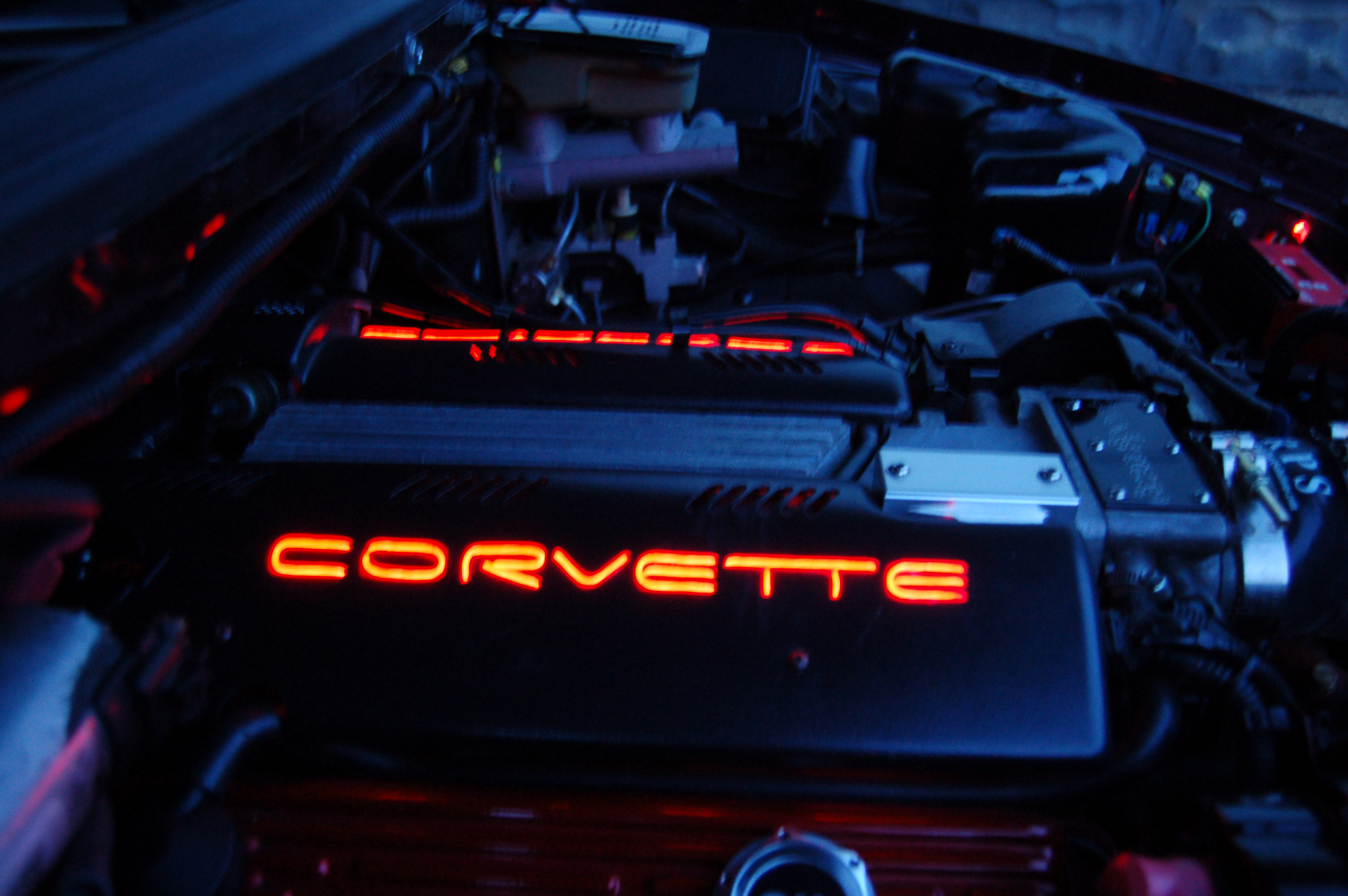 A Project Involving EL wire. Holes were carefully drilled and the EL wire was formed to the wording on the Fuel Rail Cover, and then epoxied into place. Engine is in a 1995 Buick Roadmaster Sedan.